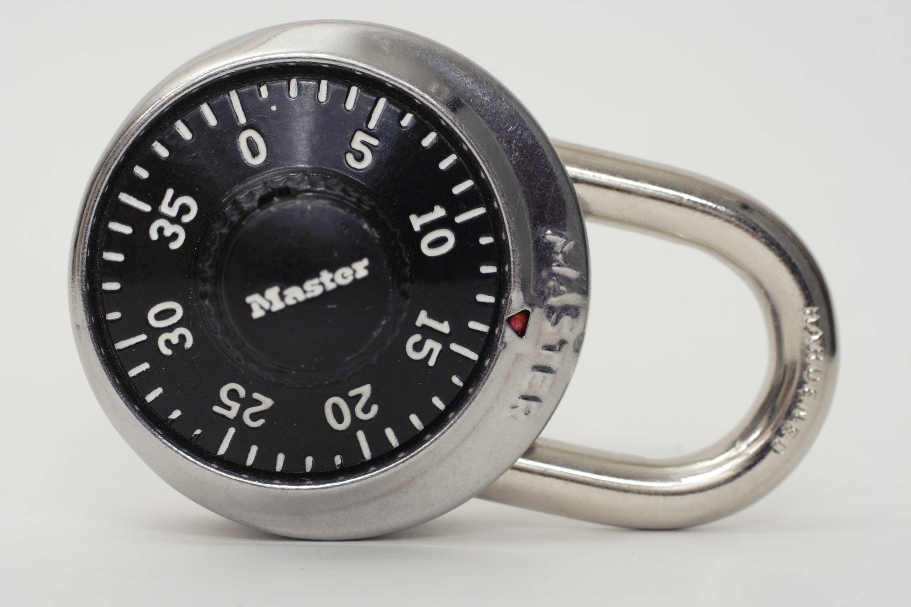 One of the source images for Image:Masterlockpadlock.jpg